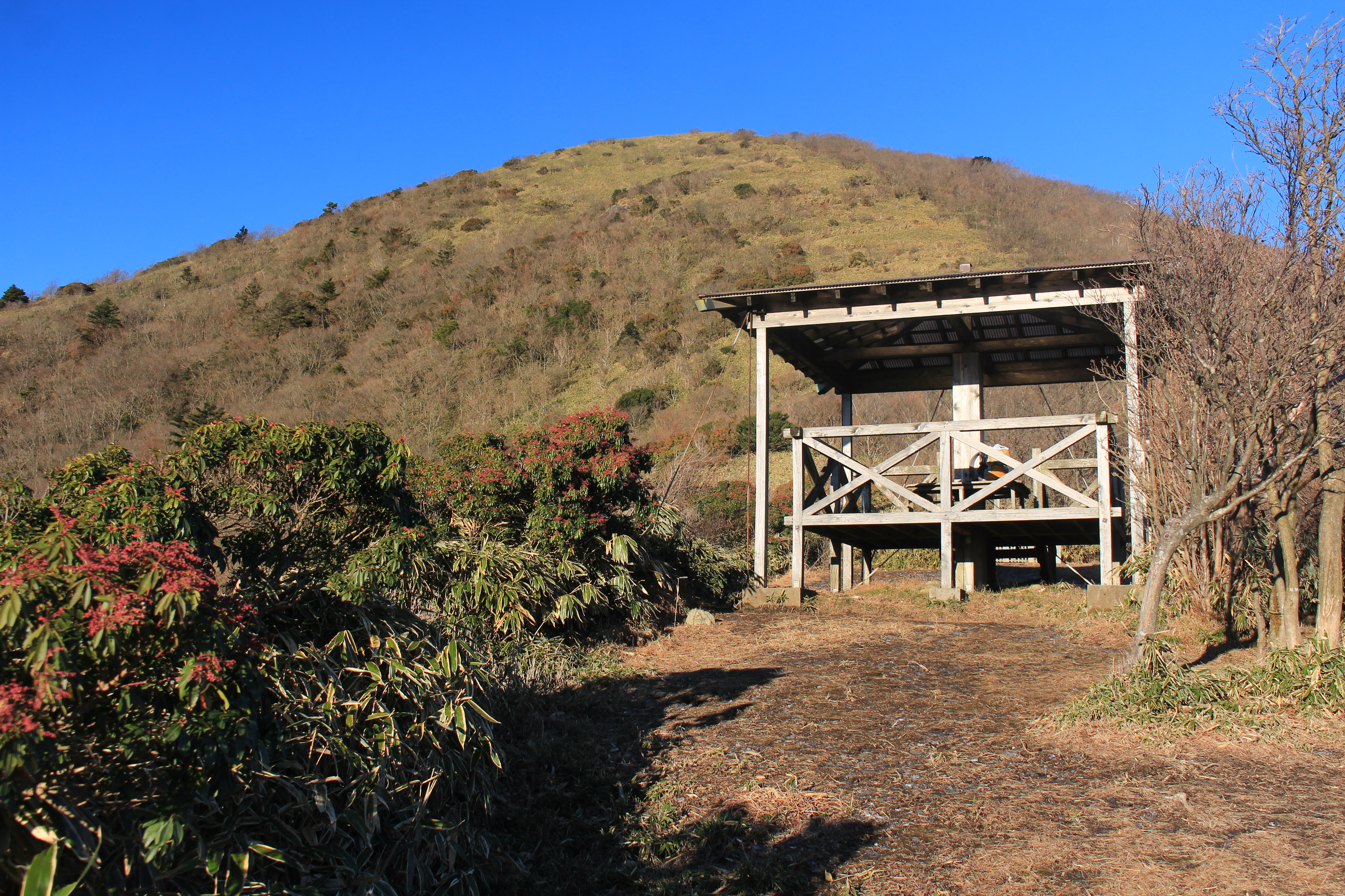 Observation deck on Mount Ryu in Fujikawaguchiko, Yamanashi prefecture, Japan.